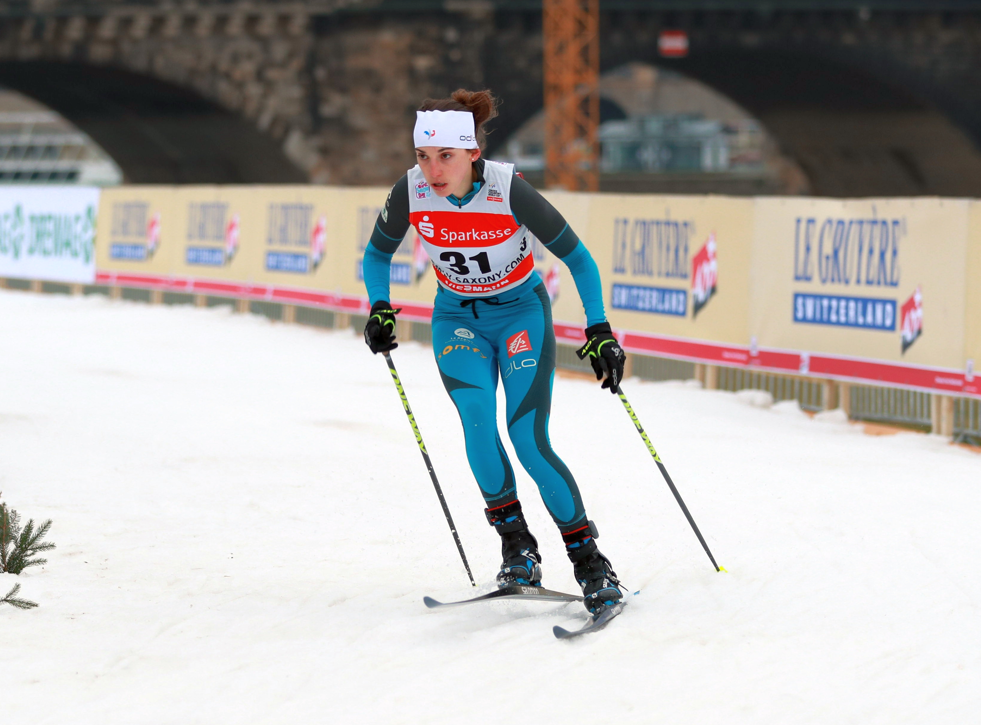 Womens Prolog at the FIS Cross-Country World Cup Dresden 2018: Delphine Claudel